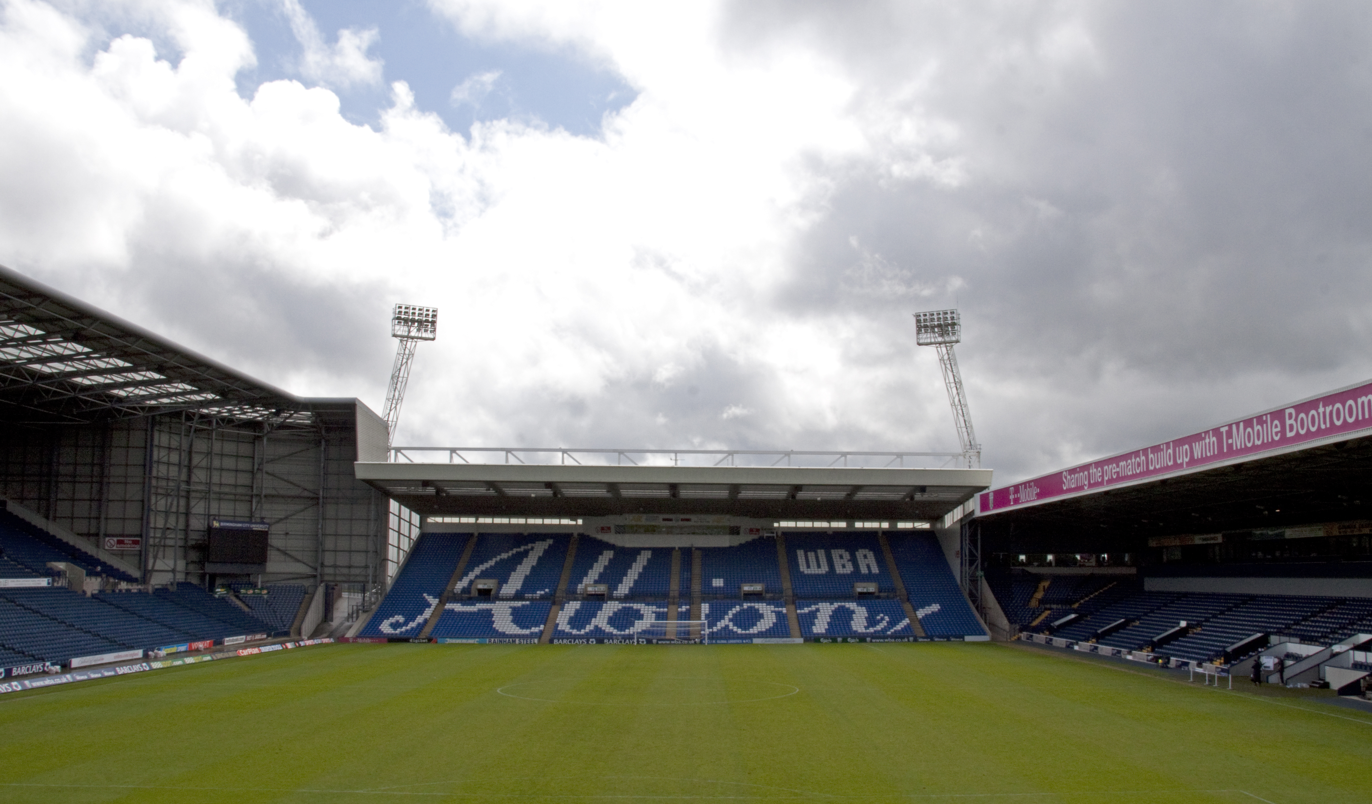 view of the pitch and the stands at The Hawthorns